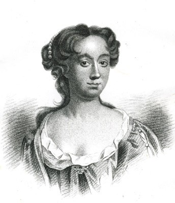 Engraving of Aphra Behn after a lost portrait by John Riley